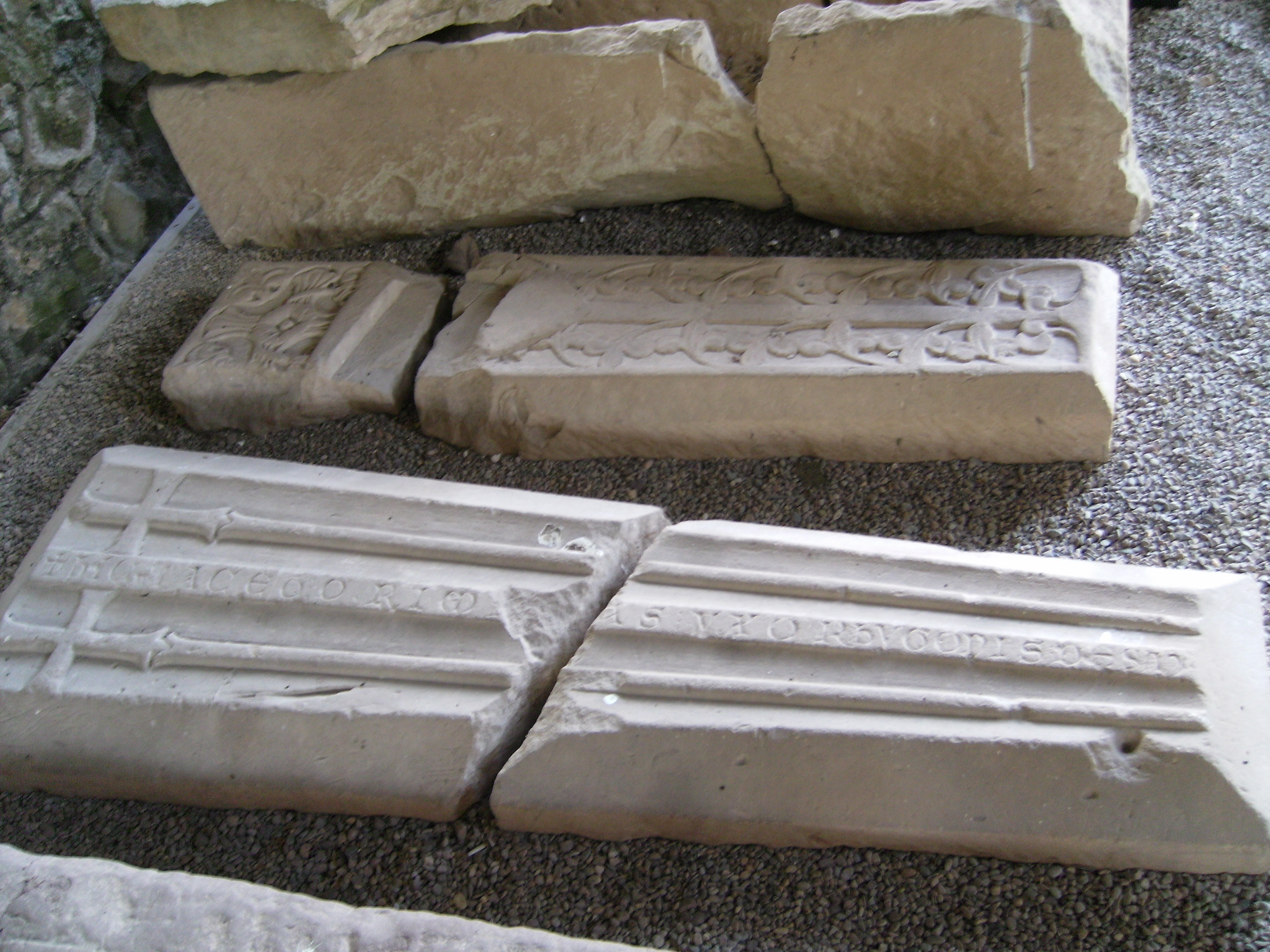 Gravestones in chapter house, probably originally in church. Broken stone in centre is of Olimpia de Say. Haughmond Abbey, Shropshire.